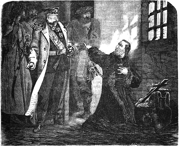 Polish priest in Warsaw Citadel during January Uprising